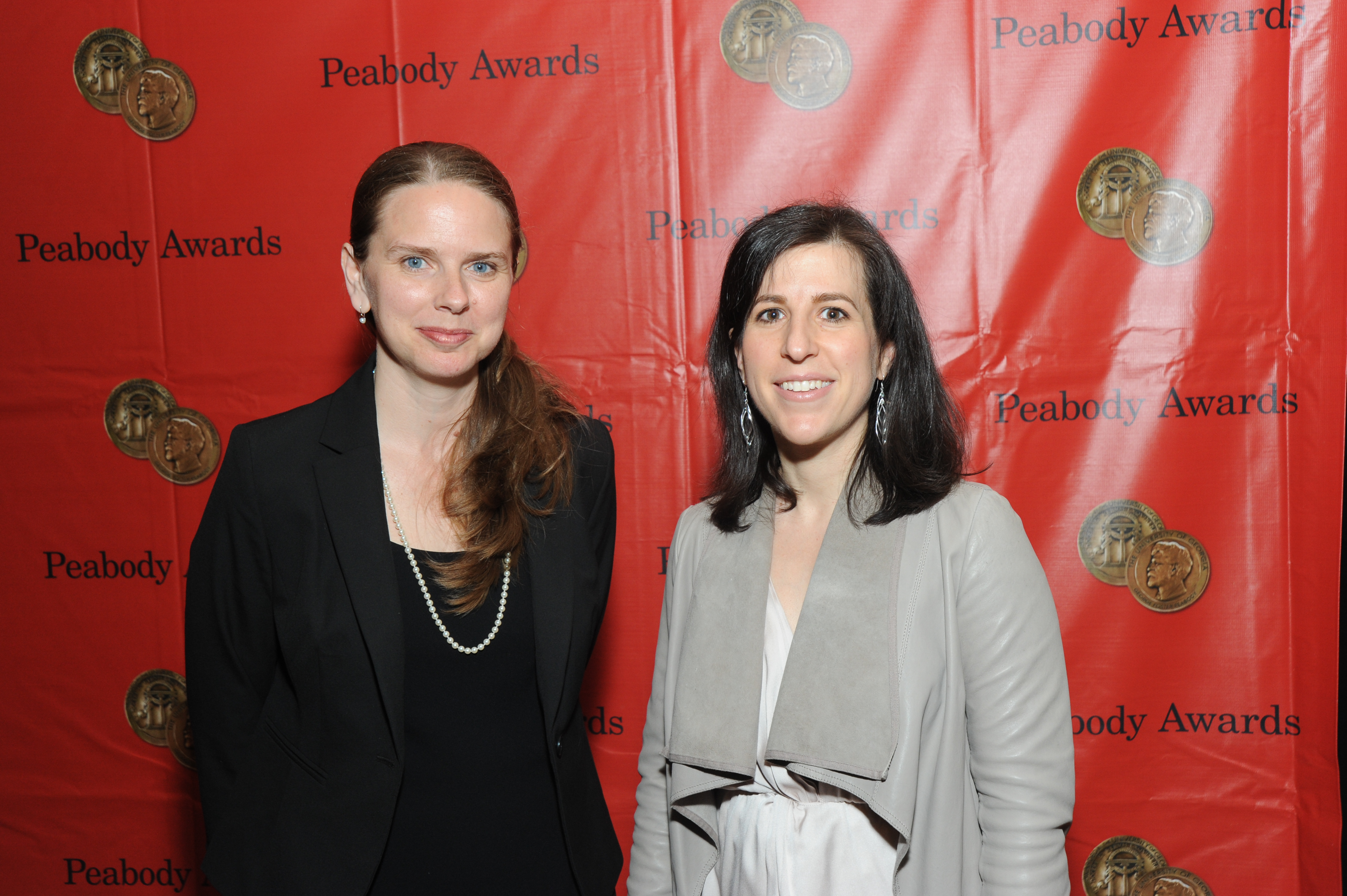 PHOTO CREDIT: ANDERS KRUSBERG / PEABODY AWARDS 72nd Annual Peabody Awards Luncheon Waldorf-Astoria Hotel May 20, 2013